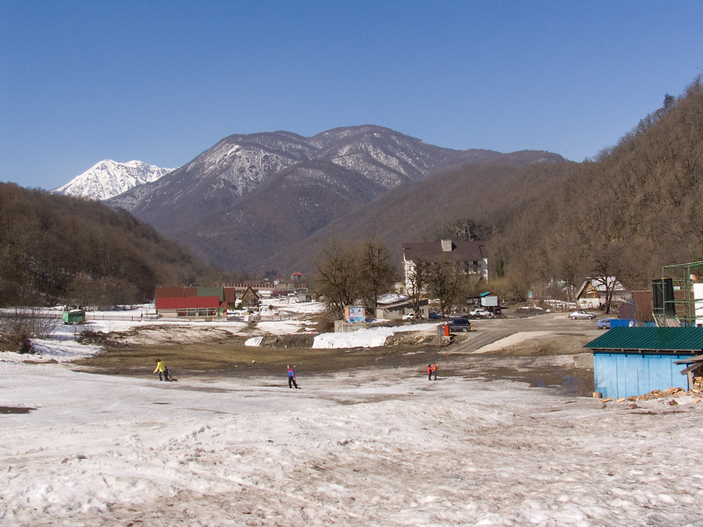 A view on Esto-Sadok village in Krasnaya Polyana.